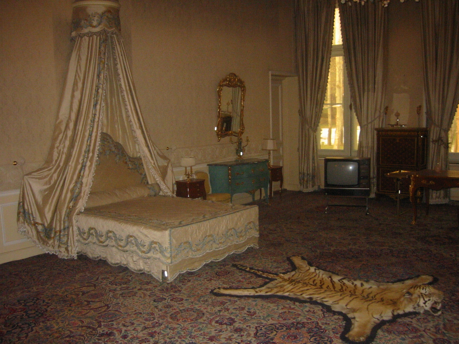 The bedroom of the Shah.